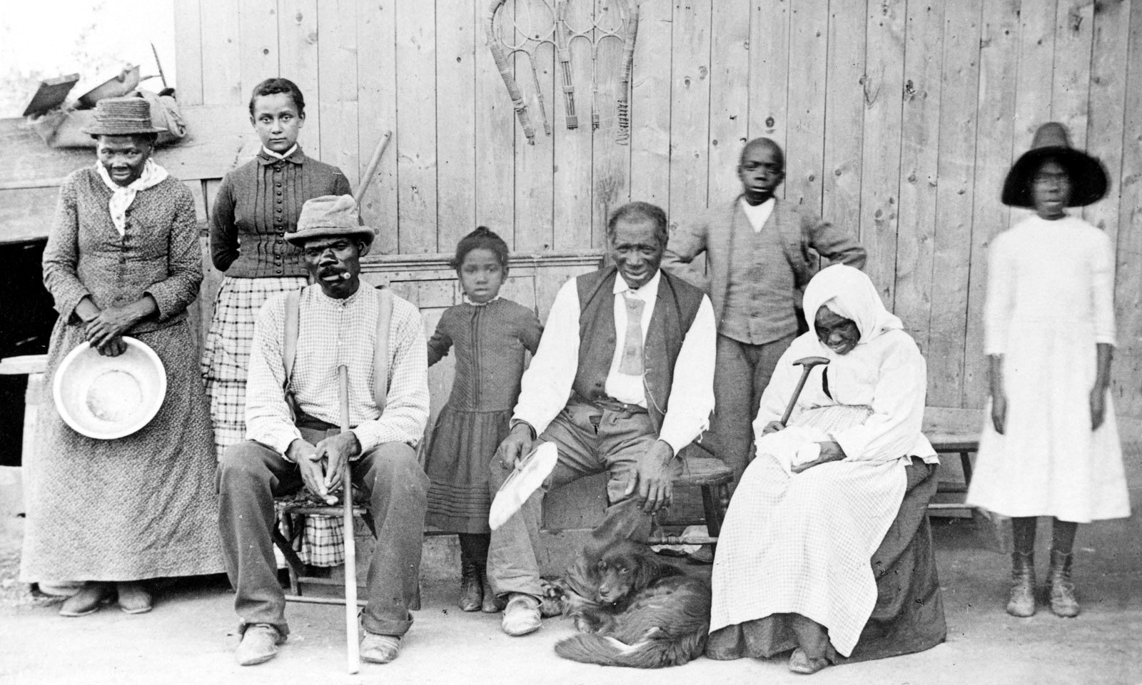 Harriet Tubman (c. 1820 – March 10, 1913), far left, with family and neighbors, circa 1887, at her home in Auburn, NY. Left to right: Harriet Tubman; Gertie Davis {Watson} (adopted daughter born 1874, died ?) behind Tubman; Nelson Davis (husband and 8th USCT veteran); Lee Chaney (neighbor's child); "Pop" John Alexander (elderly boarder in Tubman's home); Walter Green (neighbor's child); Blind "Aunty" Sarah Parker (elderly boarder); Dora Stewart (great-niece and granddaughter of Tubman's brother Robert Ross aka John Stewart). [Note: Dora Stewart is sometimes cropped out of other versions of this photograph] Source: Kate Clifford Larson